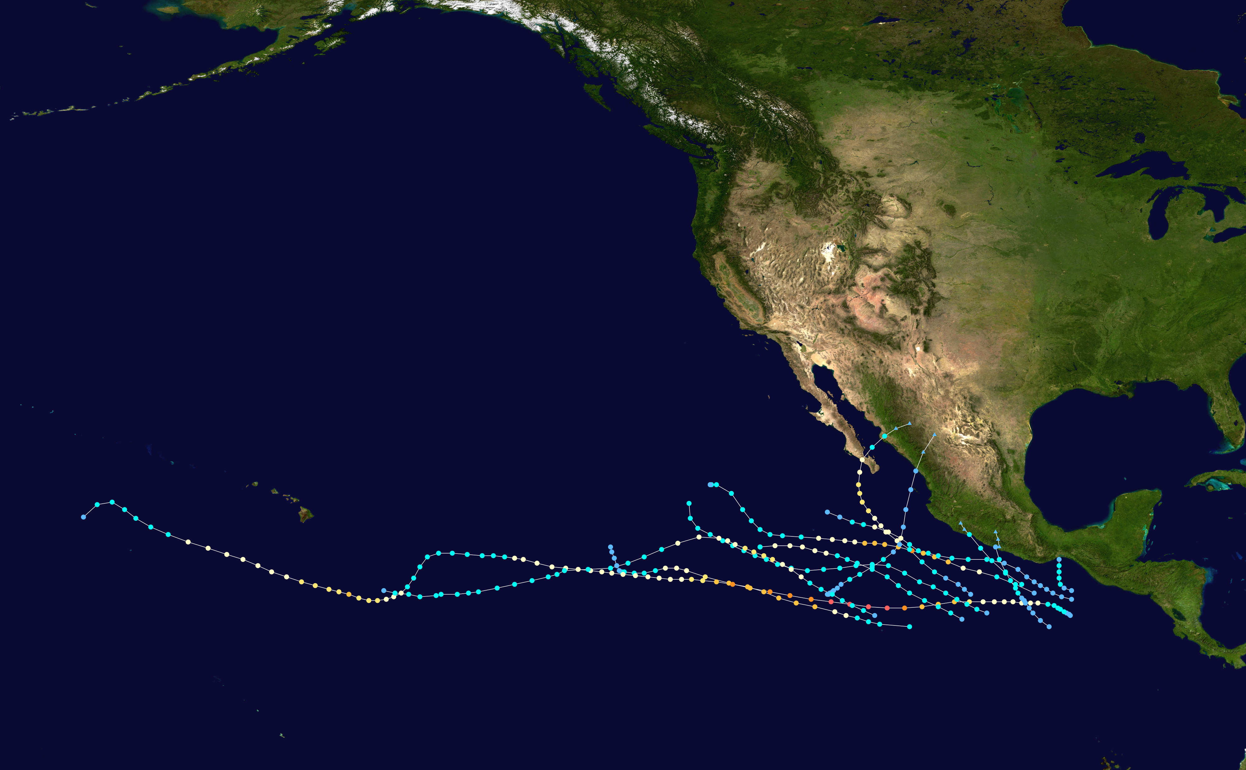 This map shows the tracks of all tropical cyclones in the 1973 Pacific hurricane season. The points show the location of each storm at 6-hour intervals. The colour represents the storm's maximum sustained wind speeds as classified in the Saffir-Simpson Hurricane Scale (see below), and the shape of the data points represent the type of the storm. Saffir–Simpson hurricane wind scale Tropical depression≤38 mph≤62 km/h Category 3111–129 mph178–208 km/h Tropical storm39–73 mph63–118 km/h Category 4130–156 mph209–251 km/h Category 174–95 mph119–153 km/h Category 5≥157 mph≥252 km/h Category 296–110 mph154–177 km/h Unknown Storm typeTropical cycloneSubtropical cycloneExtratropical cyclone / Remnant low / Tropical disturbance